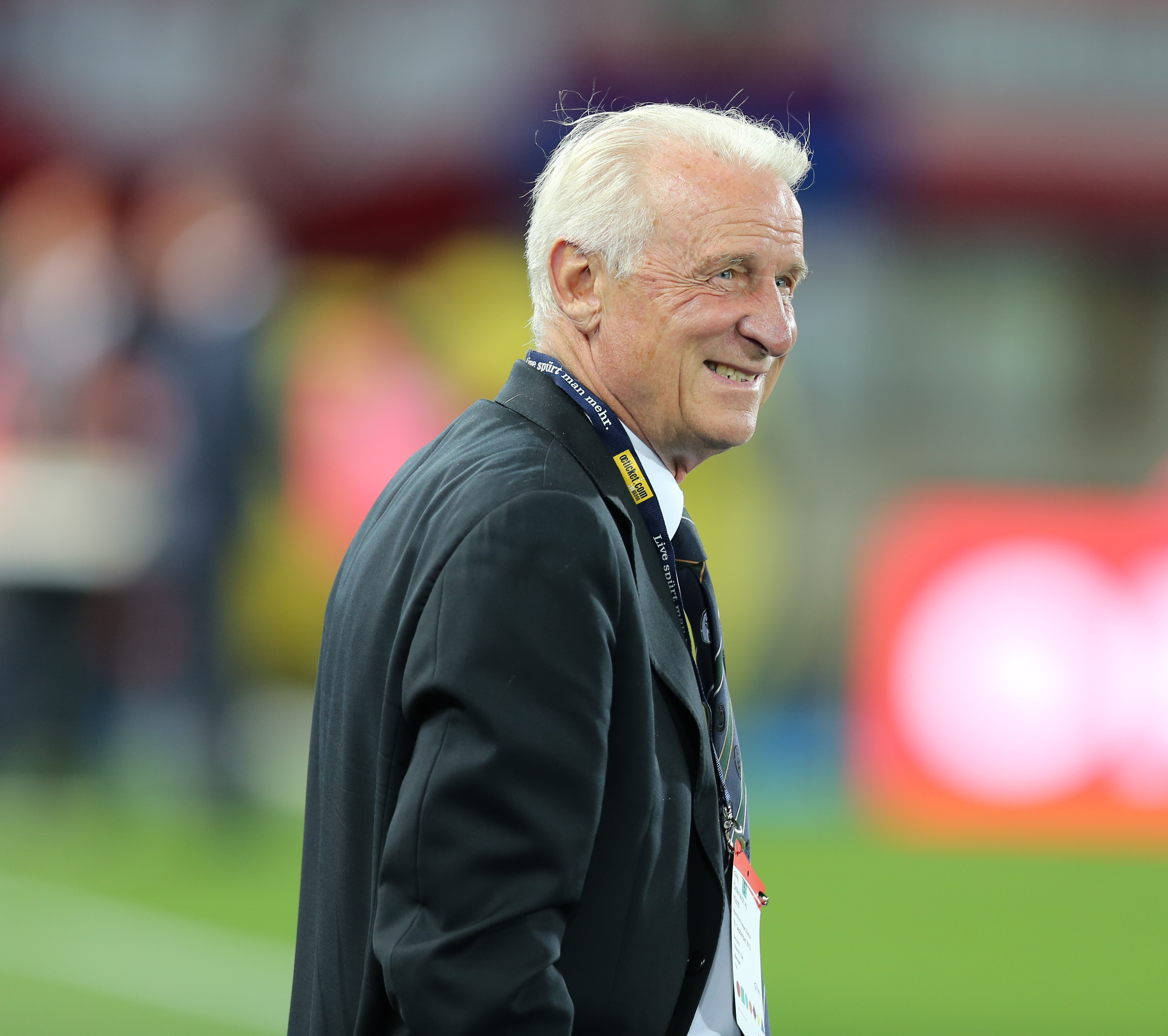 2014 FIFA World Cup qualification (UEFA), Group C: Republic of Ireland national football team at 10. September 2013 before the match against the Austria national football team (0:1) in the Ernst-Happel-Stadion in Vienna. Here: Giovanni Trapattoni, Irish head coach. The making of this work was supported by Wikimedia Austria. For other files made with the support of Wikimedia Austria, please see the category Supported by Wikimedia Österreich.